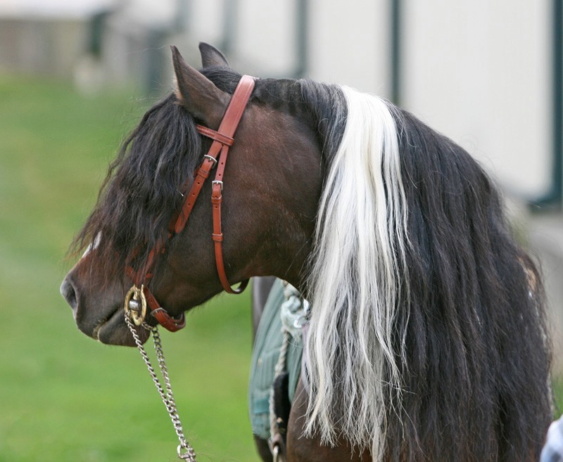 Photo by Heather Abounader